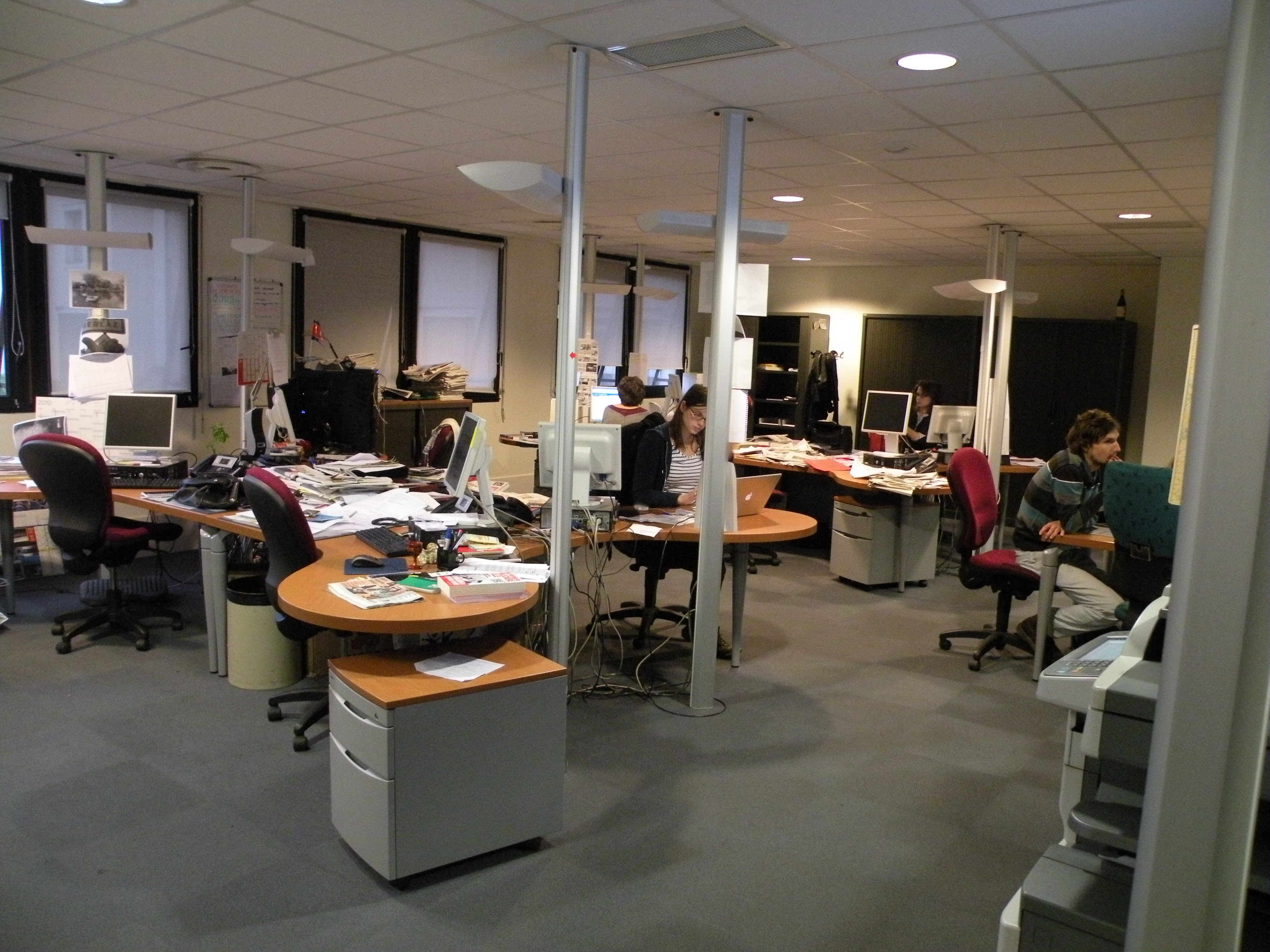 Editorial room of Ouest-France in Rennes.